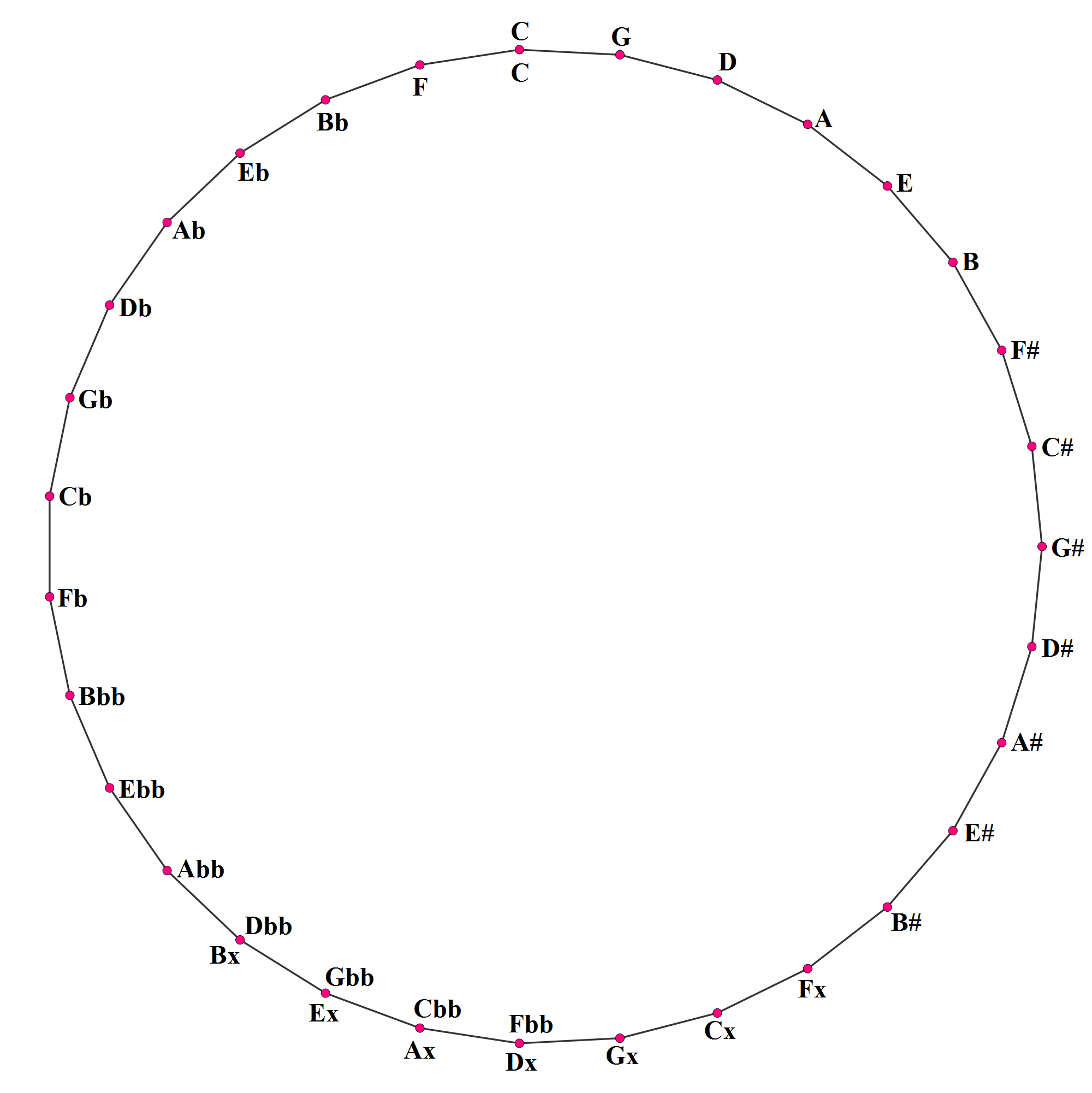 Circle of fifths in w:31 equal temperament